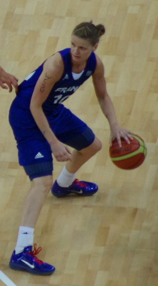 Women's basketball final